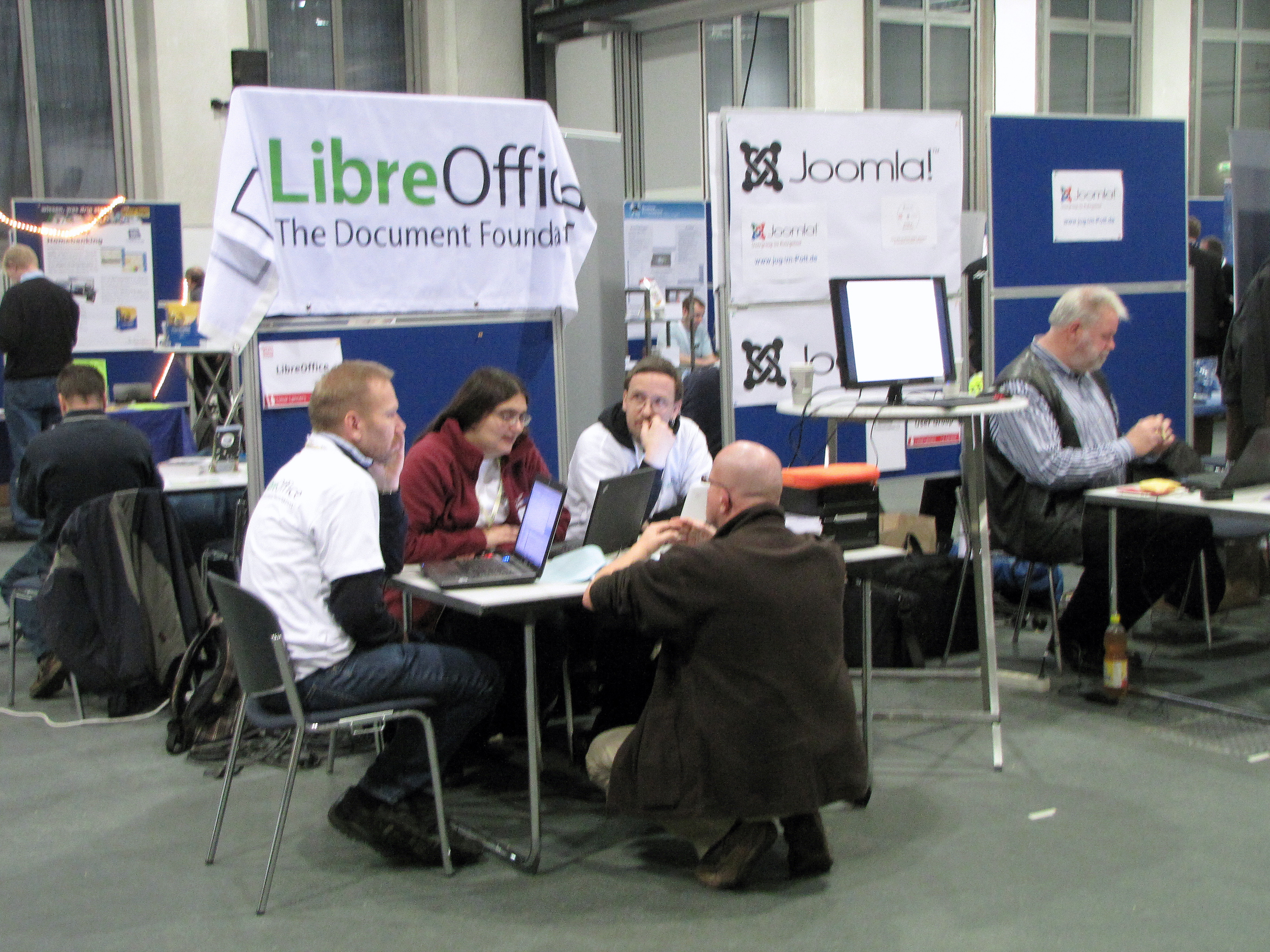 OpenRheinRuhr: a fair with congress around the subject 'Free Software'. 2010 in Oberhausen, Germany.